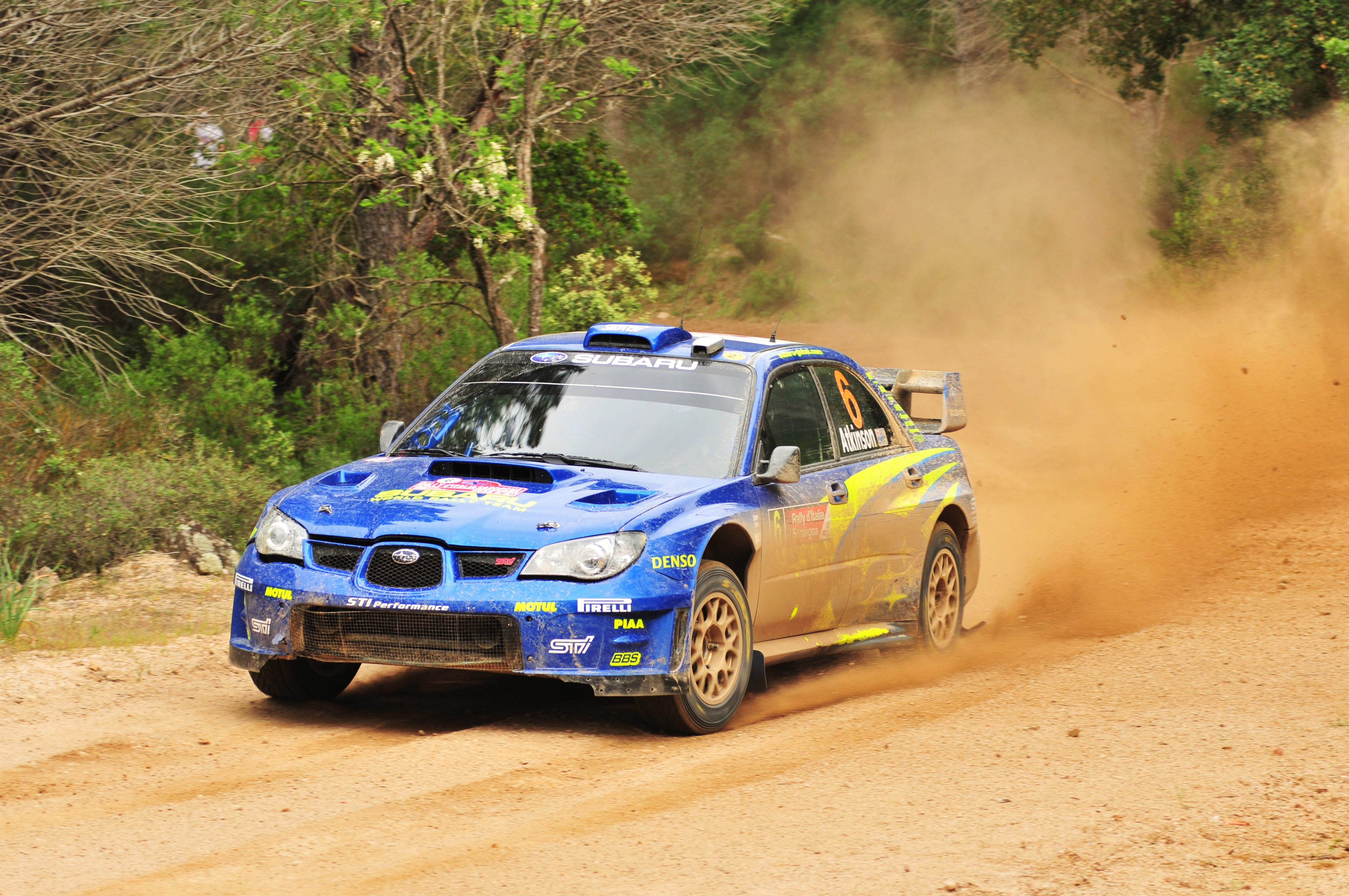 Chris Atkinson driving his Subaru Impreza WRC2007 at the 2008 Rally d'Italia Sardegna.